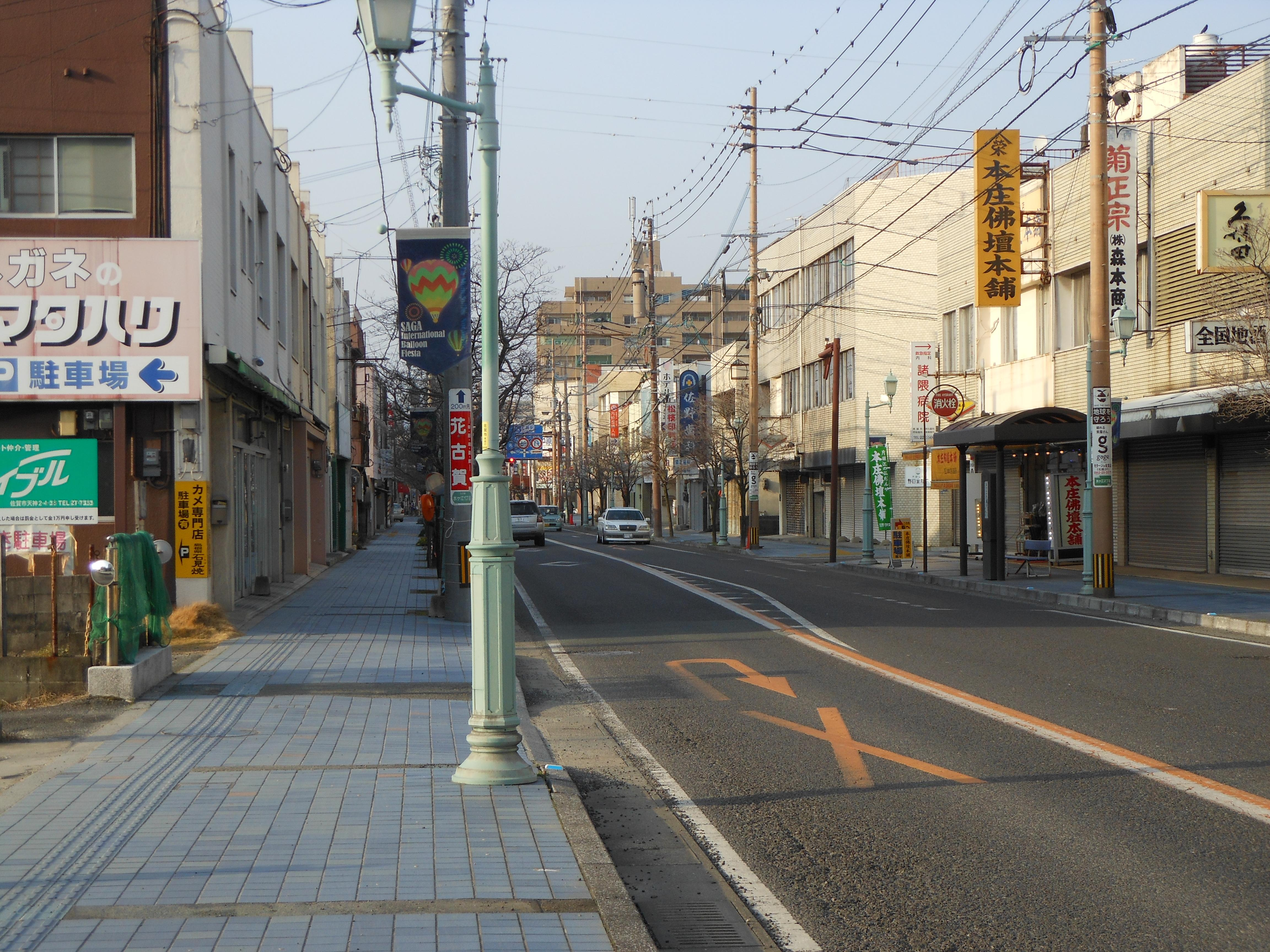 Street of Mizugae, Saga City.